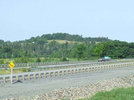 Battle Hill St Croix NovaS cotia